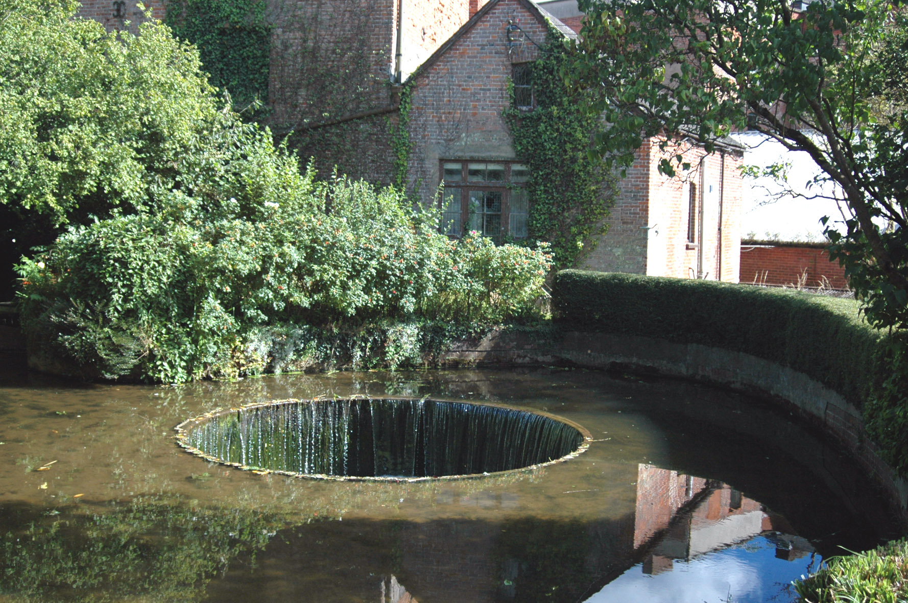 Tumbling Weir, Ottery St Mary, Devon, UK. The water flows inwards over concentric circles, returning to the River Otter from the leat via an underground tunnel.